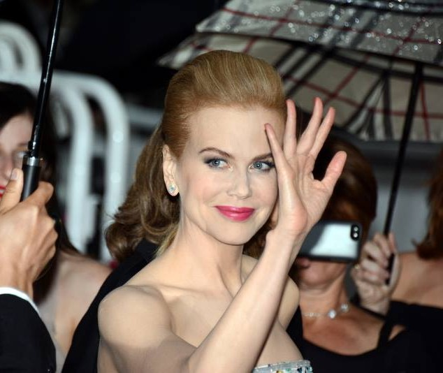 Nicole Kidman at the Cannes Film Festival